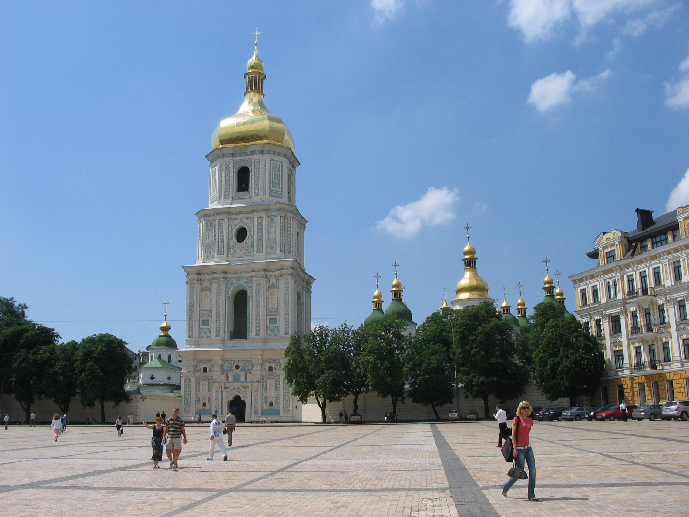 The Saint Sophia Cathedral in Kiev, the capital of Ukraine.